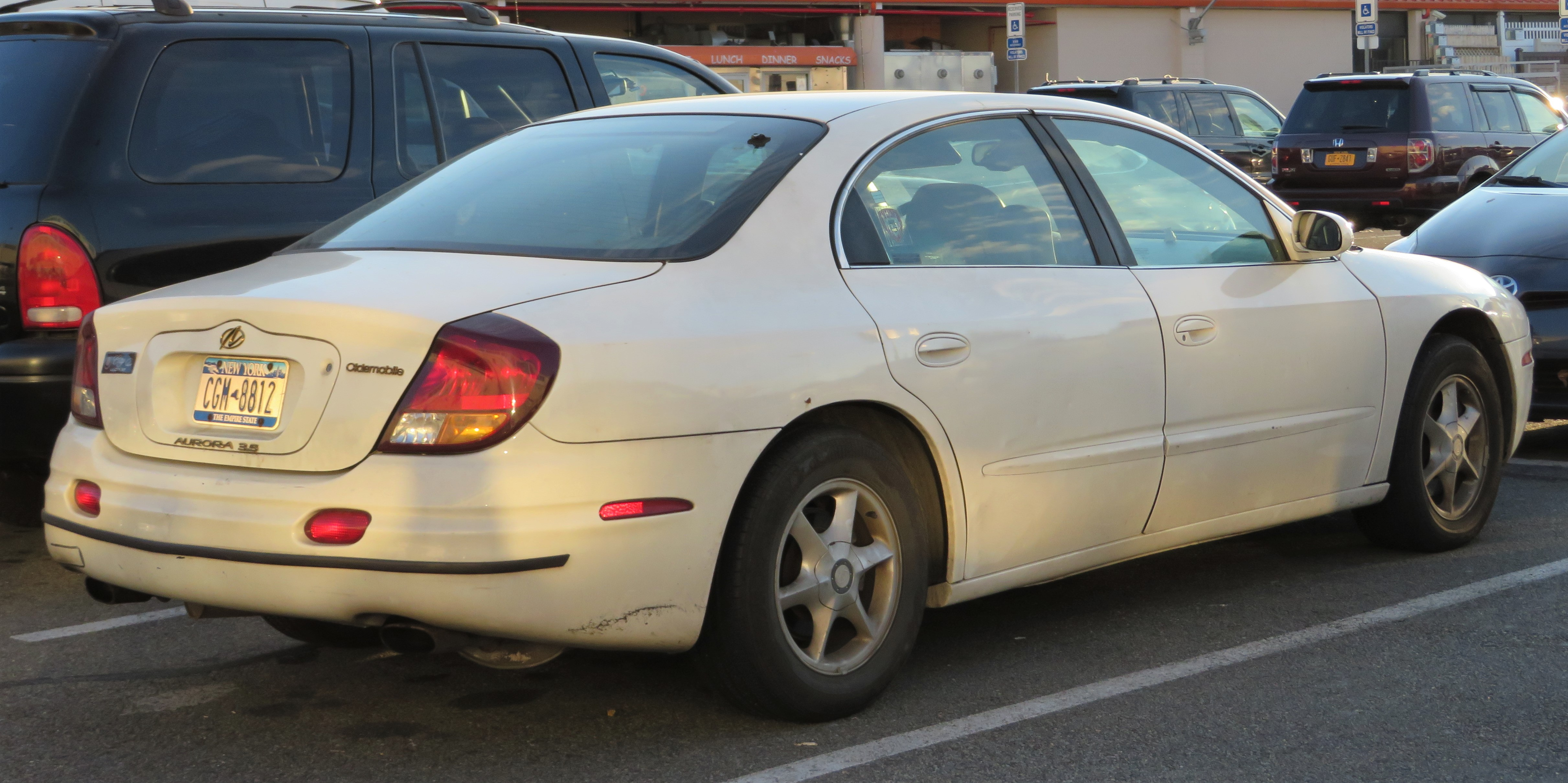 In Flushing, New York